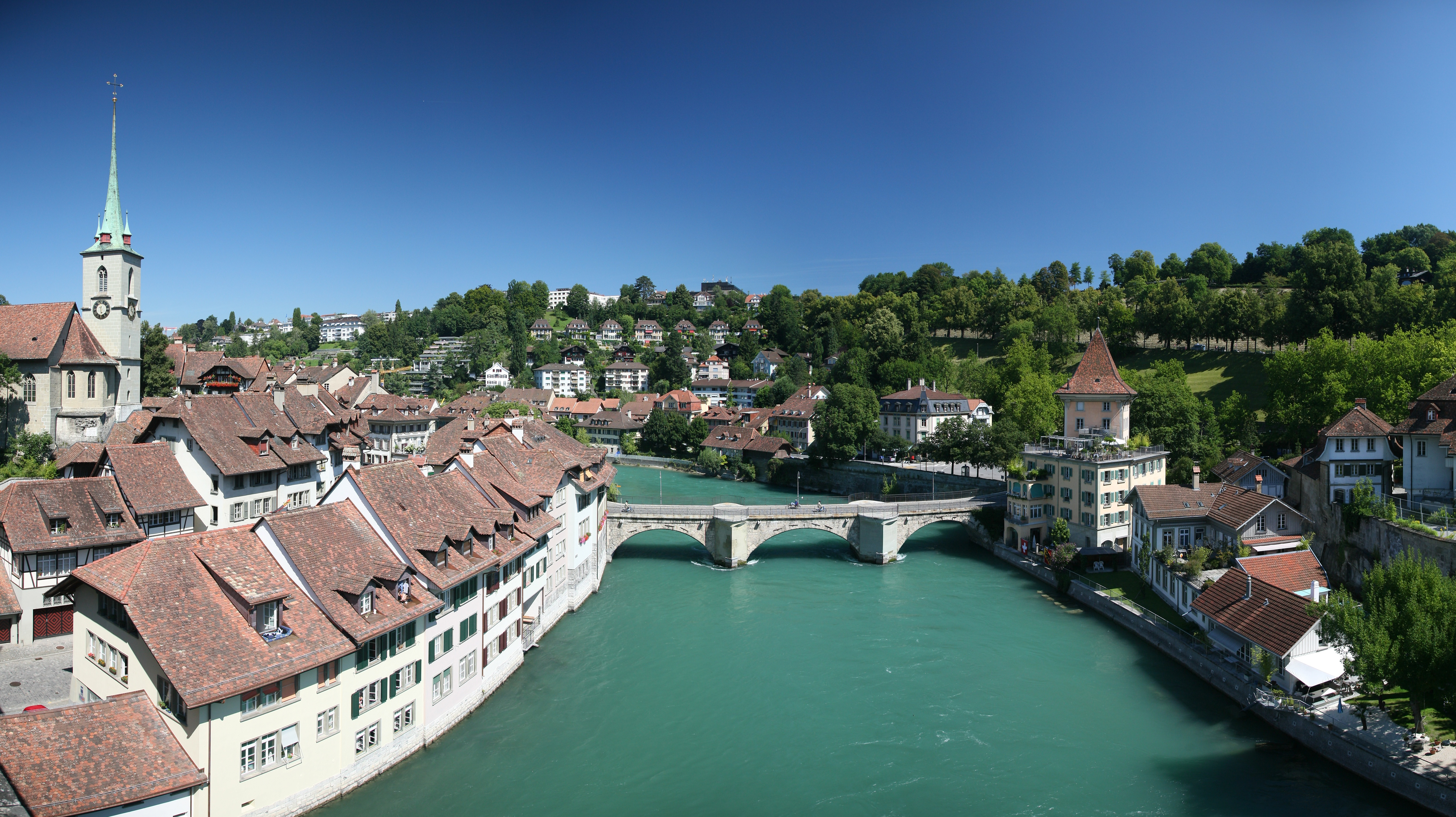 View from the Nydegg bridge on the river Aaare in Bern, Switzerland. This image was created with Hugin.